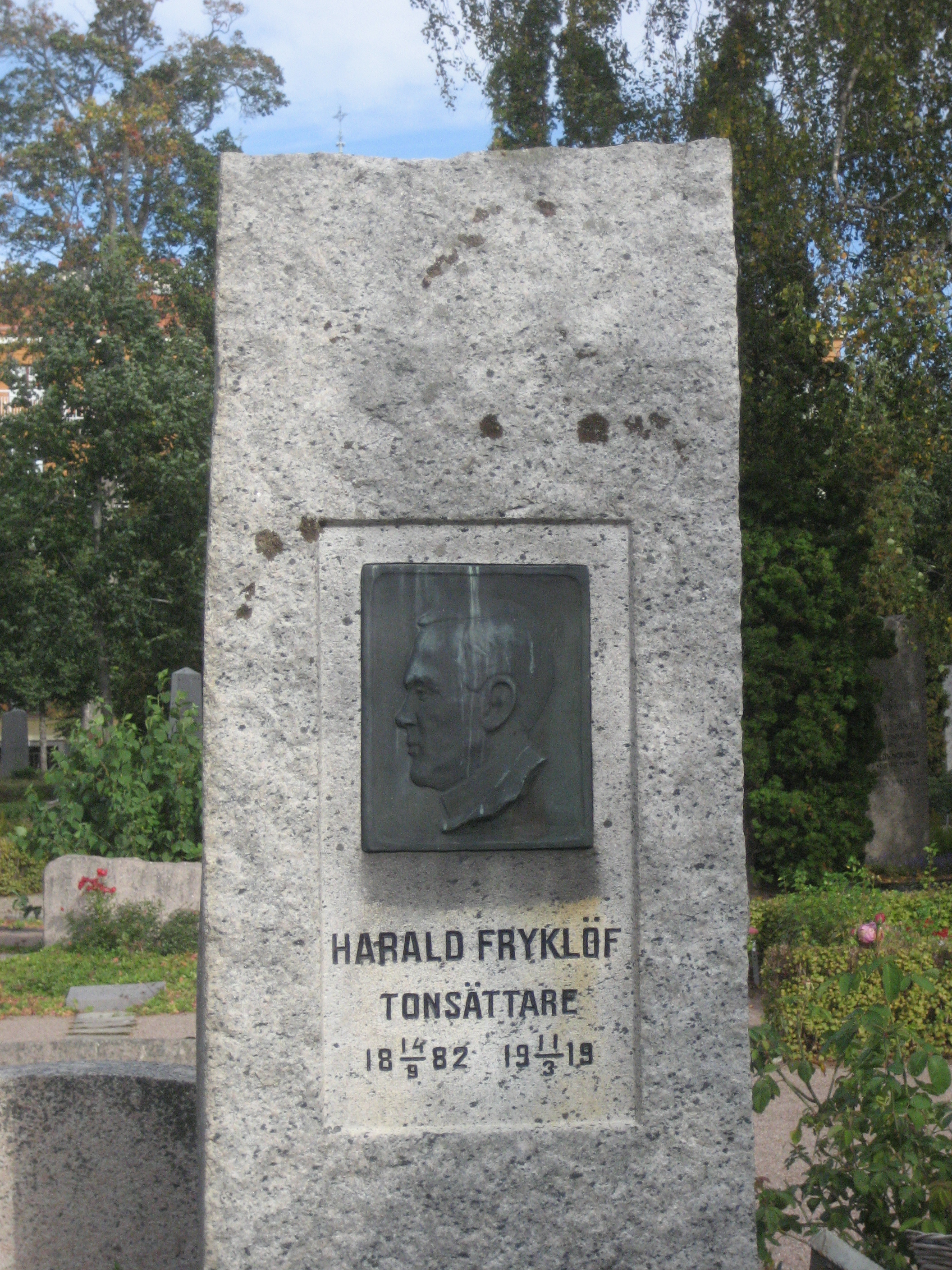 Harald Fryklöf, Uppsala Cemetery (Sweden)